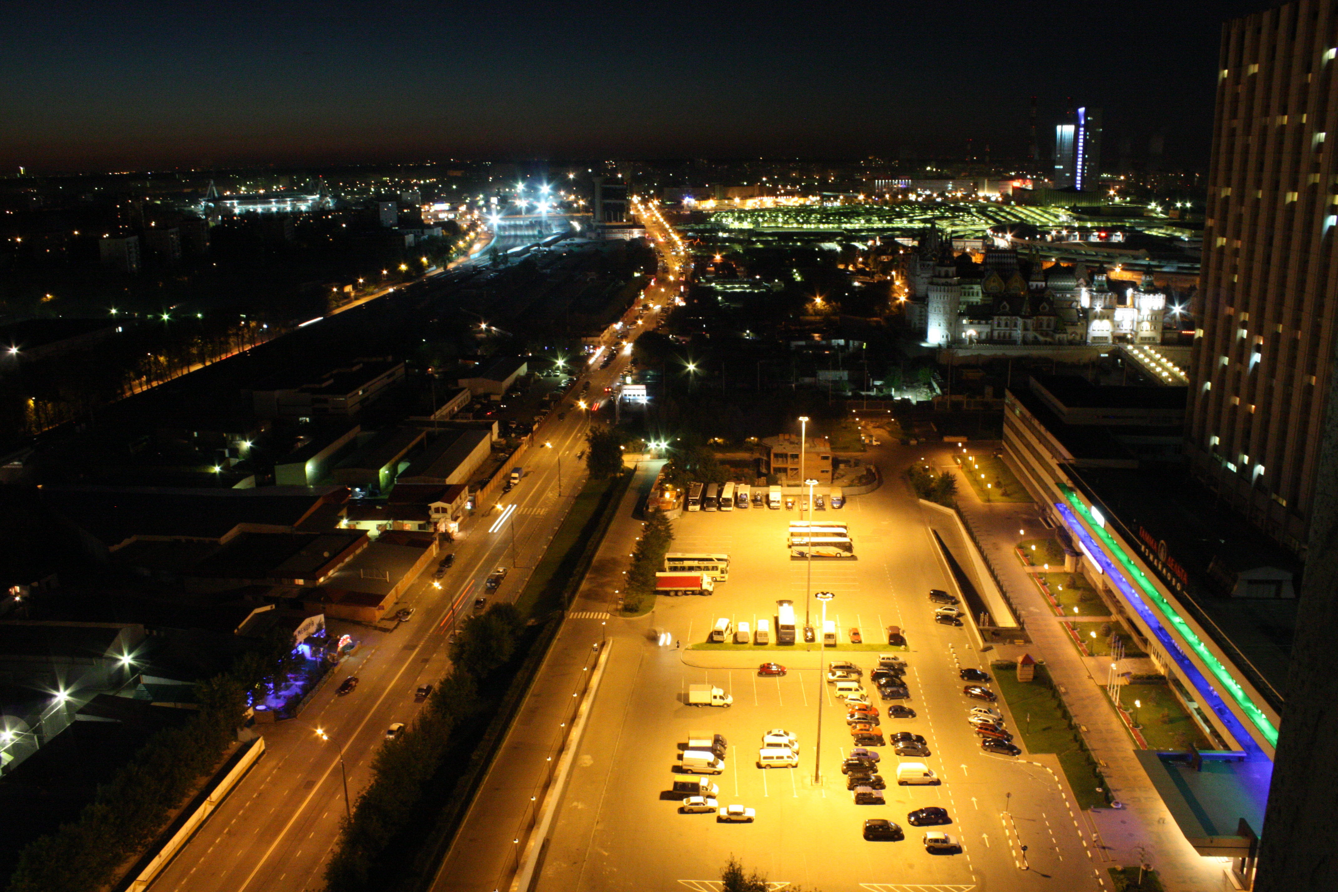 View of the East Administrative District of Moscow (Lokomotiv stadium, Circuit Avenue, hotel complex "Izmailovo" Cherkizovsky Market (away), the National Park Losiny Ostrov, railroad) late at night.